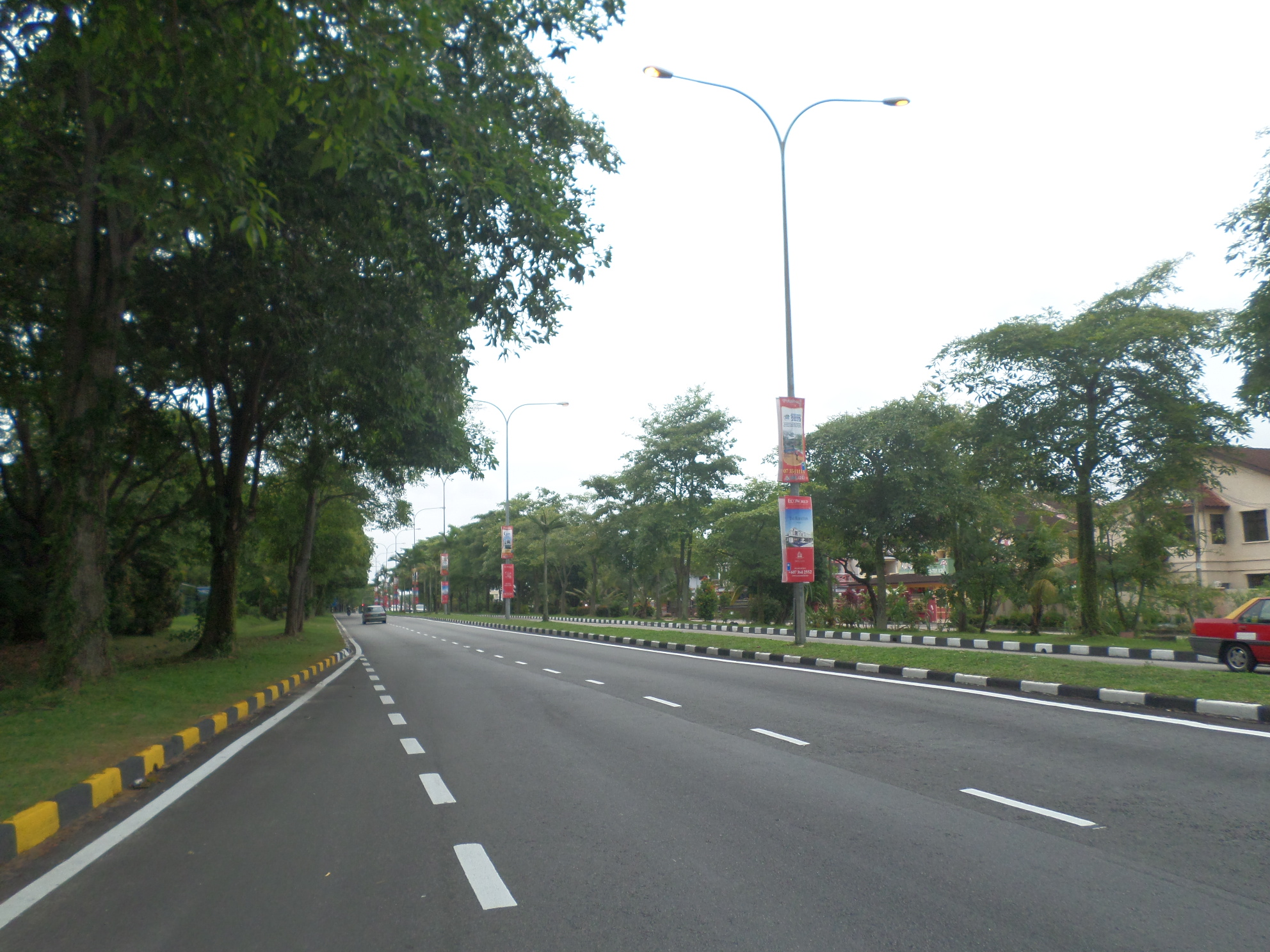 Taman Daya, Tebrau, Johor Bahru, Johor, Malaysia